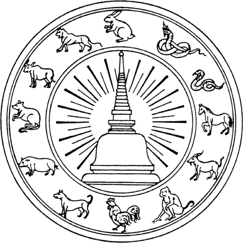 Provincial seal of Nakhon Si Thammarat province.